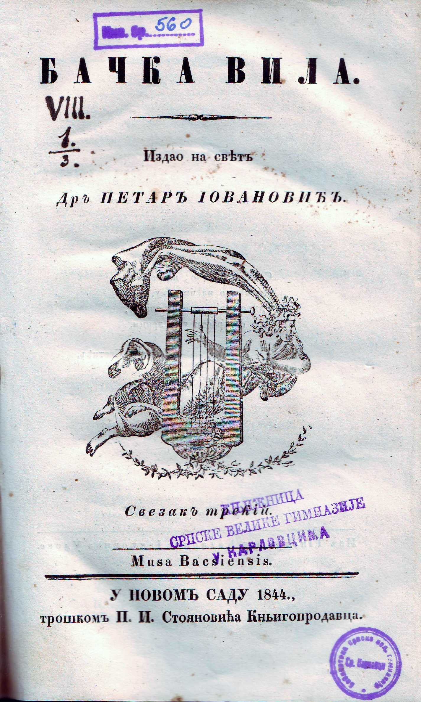 Cover page of the almanac Bačka vila (1844). Srpski (latinica): Naslovna strana almanaha Bačka vila (1844).